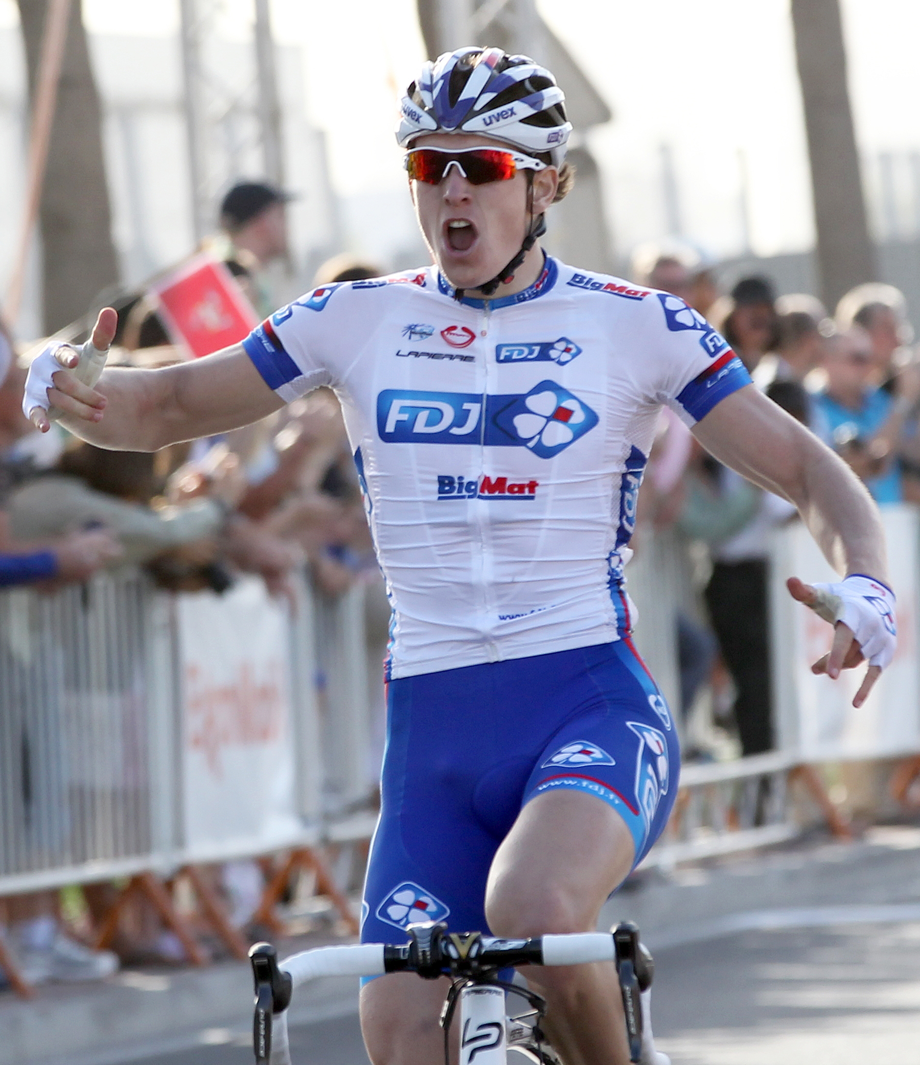 Arnaud Demare exults after winning the final stage of the Tour of Qatar cycling at the Doha Corniche.